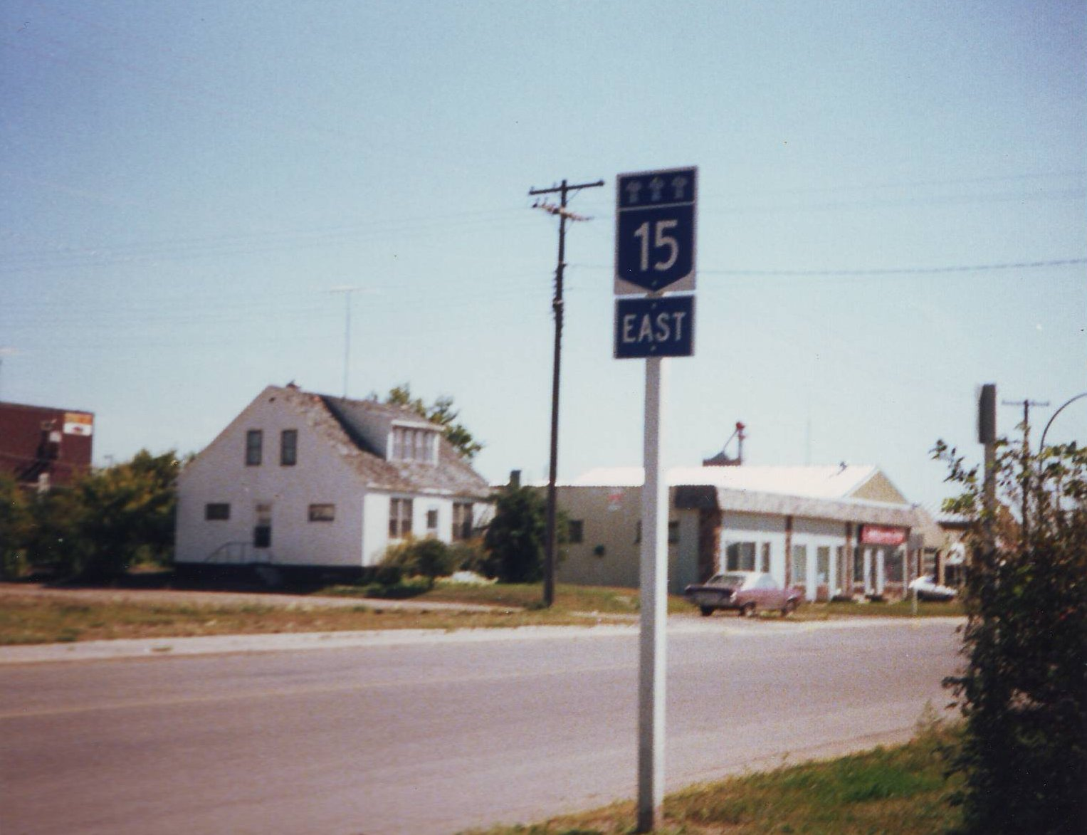 This eastbound portion of Saskatchewan Highway 15 is marked as it passes through the city of Melville, Saskatchewan, Canada. Photograph taken on August 31, 1991.